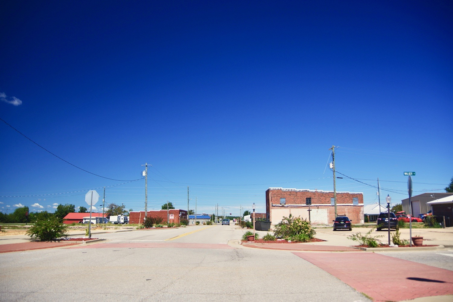 Looking north along Main Street in Hackleburg, Alabama, United States.